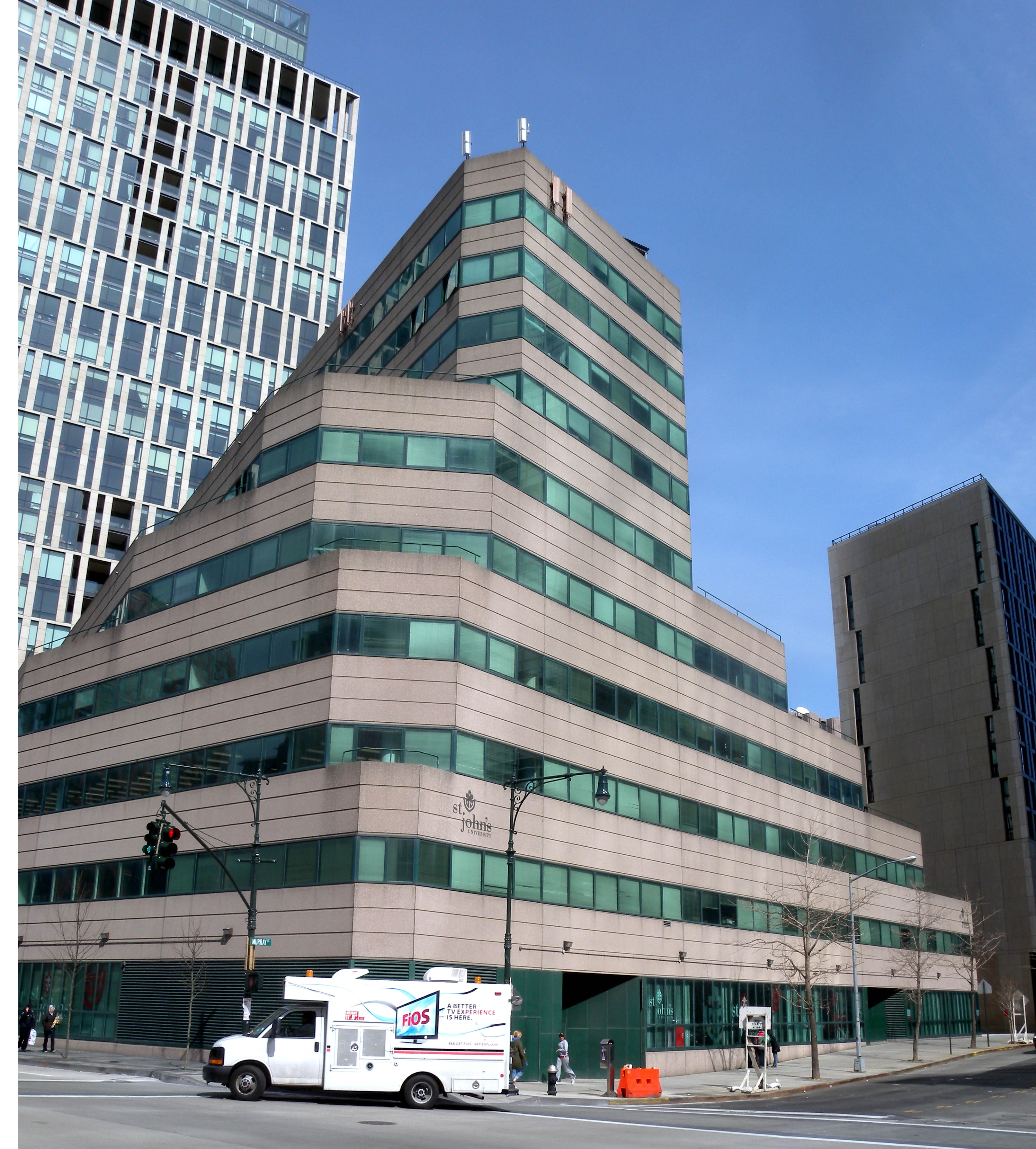 Looking northeast across Murray and West Streets at Manhattan campus of St John's on a sunny midday. ZIP 10007.